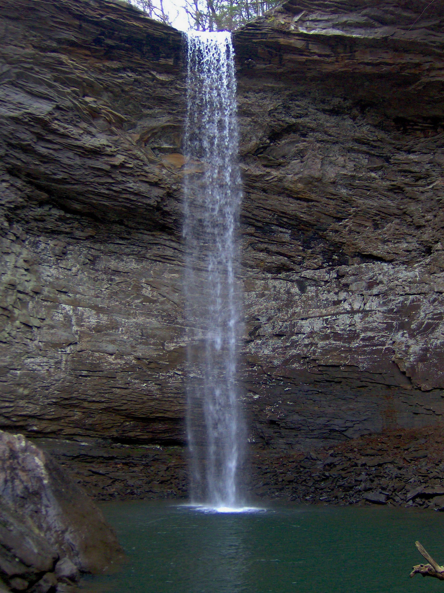 Ozone Falls near Ozone, Tennessee, located in the Southeastern United States. This view is from the base of the gorge, looking north.